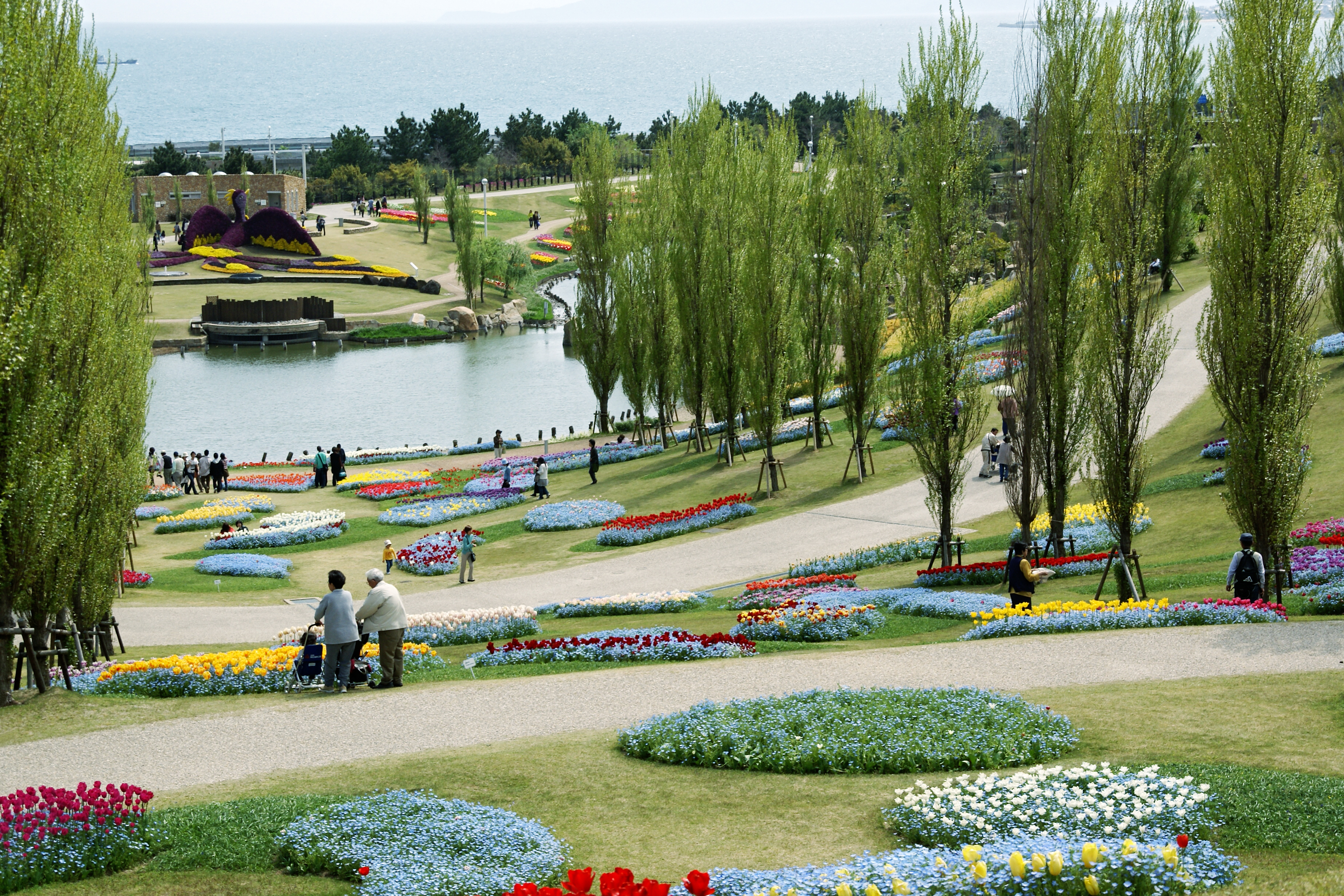 Akashi Kaikyo National Government Park in Awaji, Hyogo prefecture, Japan